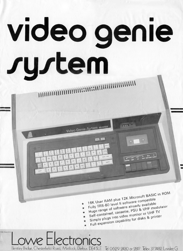 Poster for Video Genie by Lowe Electronics the UK importer. Scanned by me. Permission for use granted by Lowe Electronics Managing Director. Knutrl 17:58, 22 March 2007 (UTC)